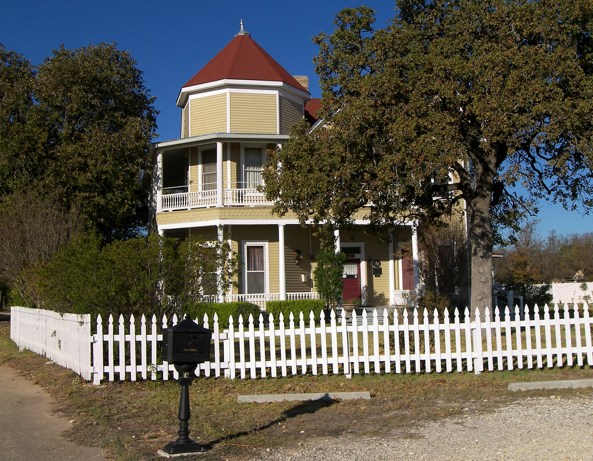 The Paige House in Georgetown, Texas, United States. The house was listed on the National Register of Historic Places on January 14, 1986.